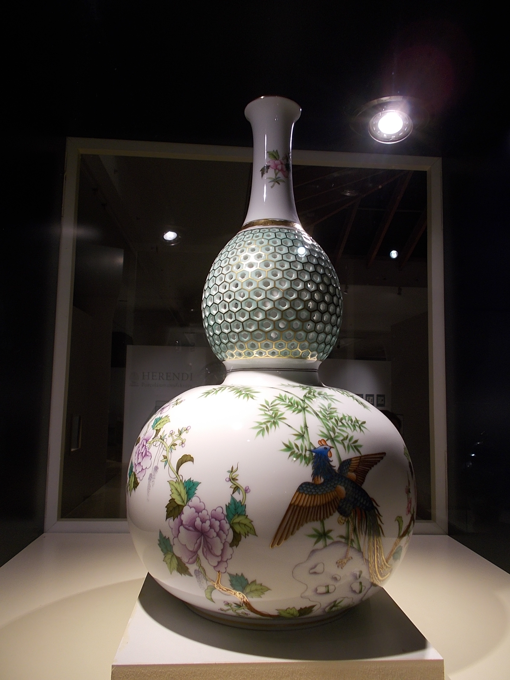 Hungarian Natural History Museum. Fragile Nature - Treasures of Herend. (temporary exhibits) - Budapest, VIII. Ludovika tér 2-6.